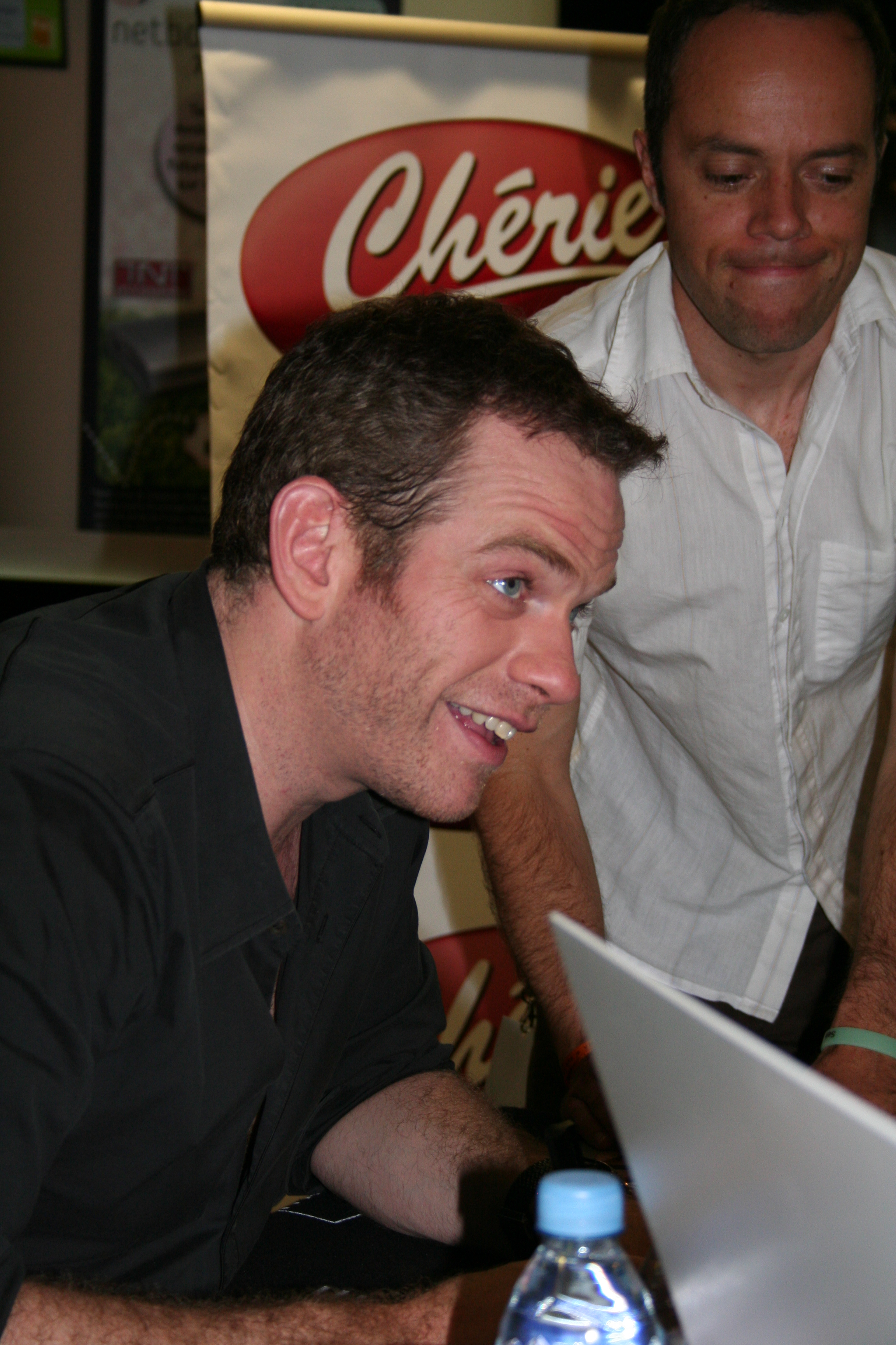 Autograph session with Garou at Fnac des Champs-Élysées (Paris, France).